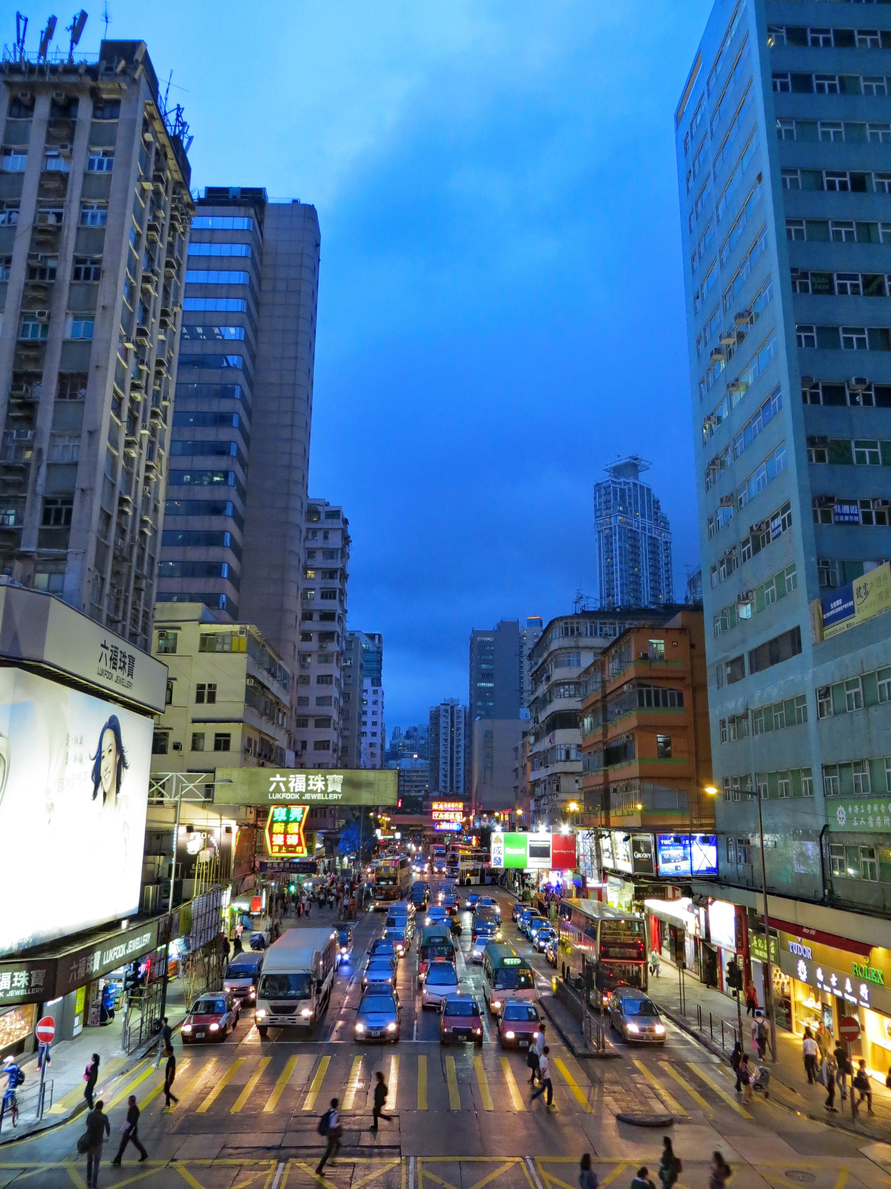 Mong Kok Road at Nathan Road, Mong Kok, Kowloon, Hong Kong.